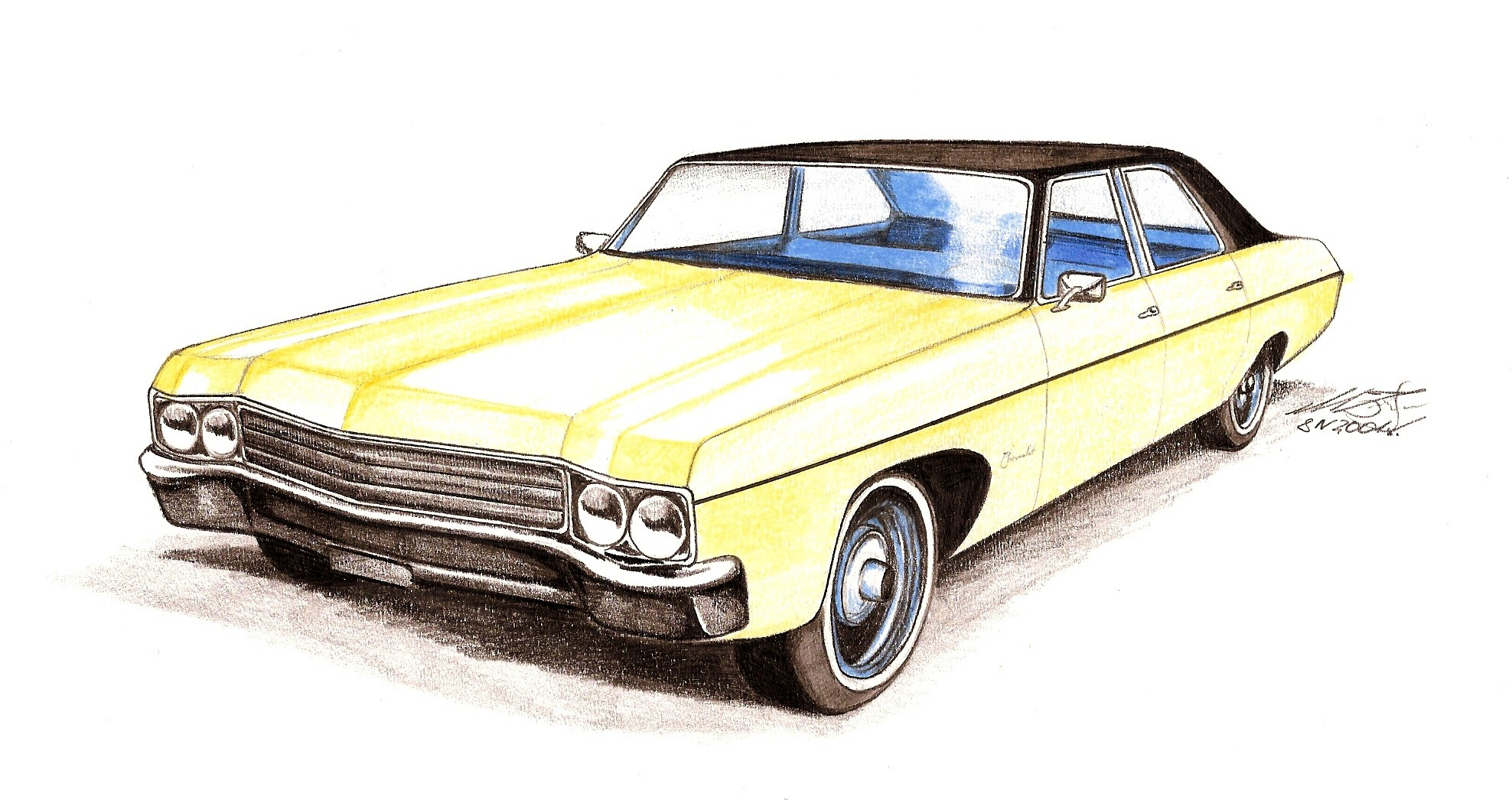 A drawing of Chevrolet Bel Air 1970